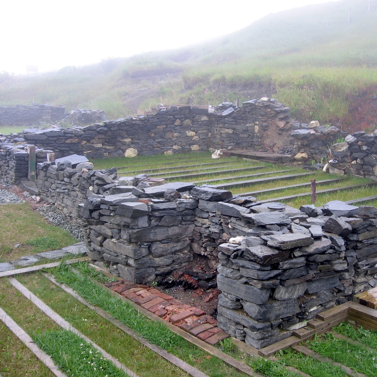 Seventeenth century Ferryland Mansion excavations showing fireplace of abutting structure in foreground. Ferryland, Newfoundland and Labrador. 2011